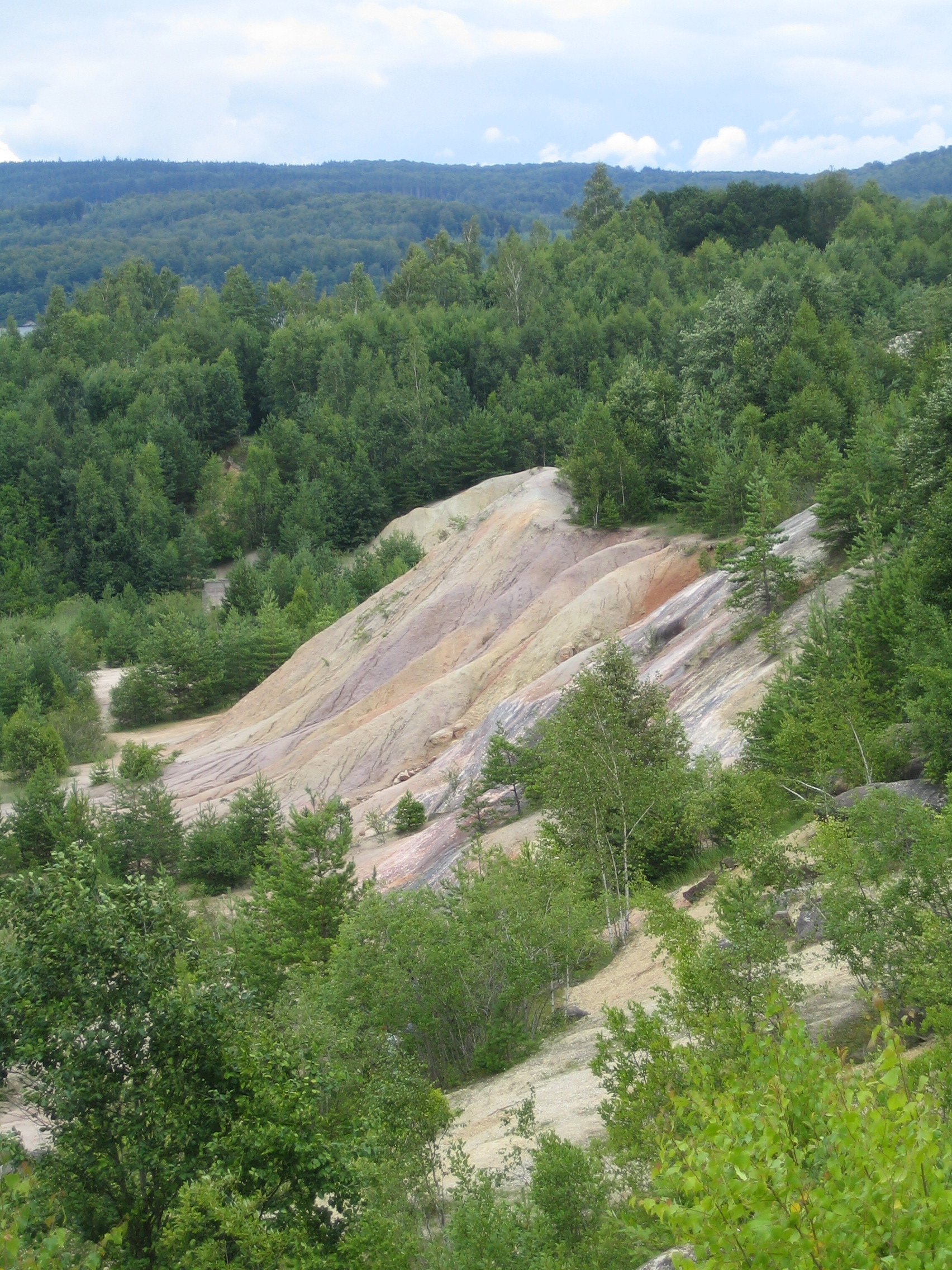 Abandoned kaolin quarry at Ivö, Sweden